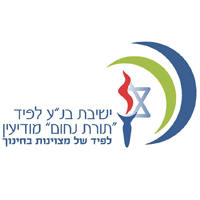 the logo of this mosad